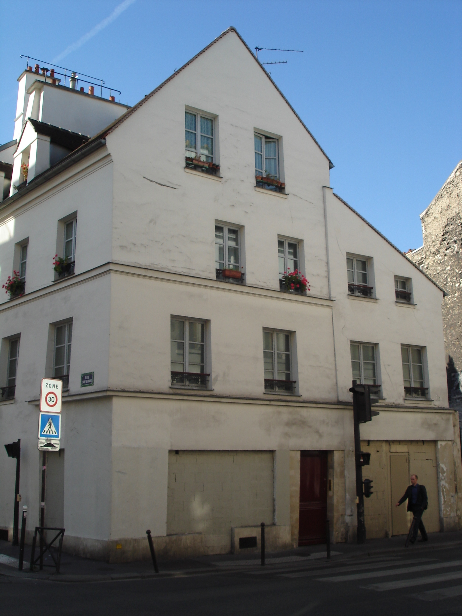 Old house, dating 1st half of 17th century; located 78 rue de Charonne (Paris 11), in the Faubourg Saint-Antoine.